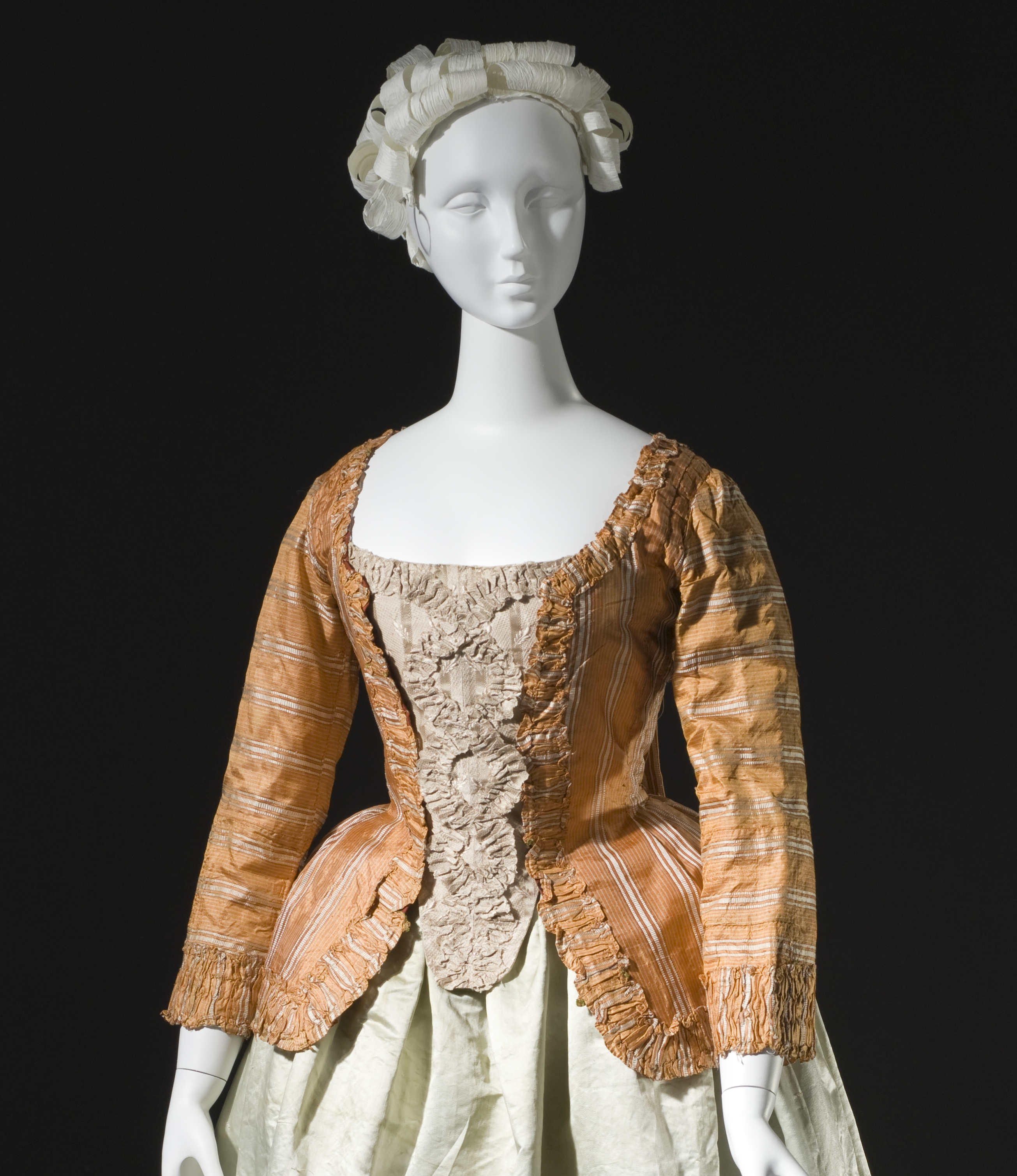 Woman's striped silk sack-back jacket (caraco), Europe, c. 1760, altered c. 1780, and embroidered silk petticoat, China for the Western market, c. 1785